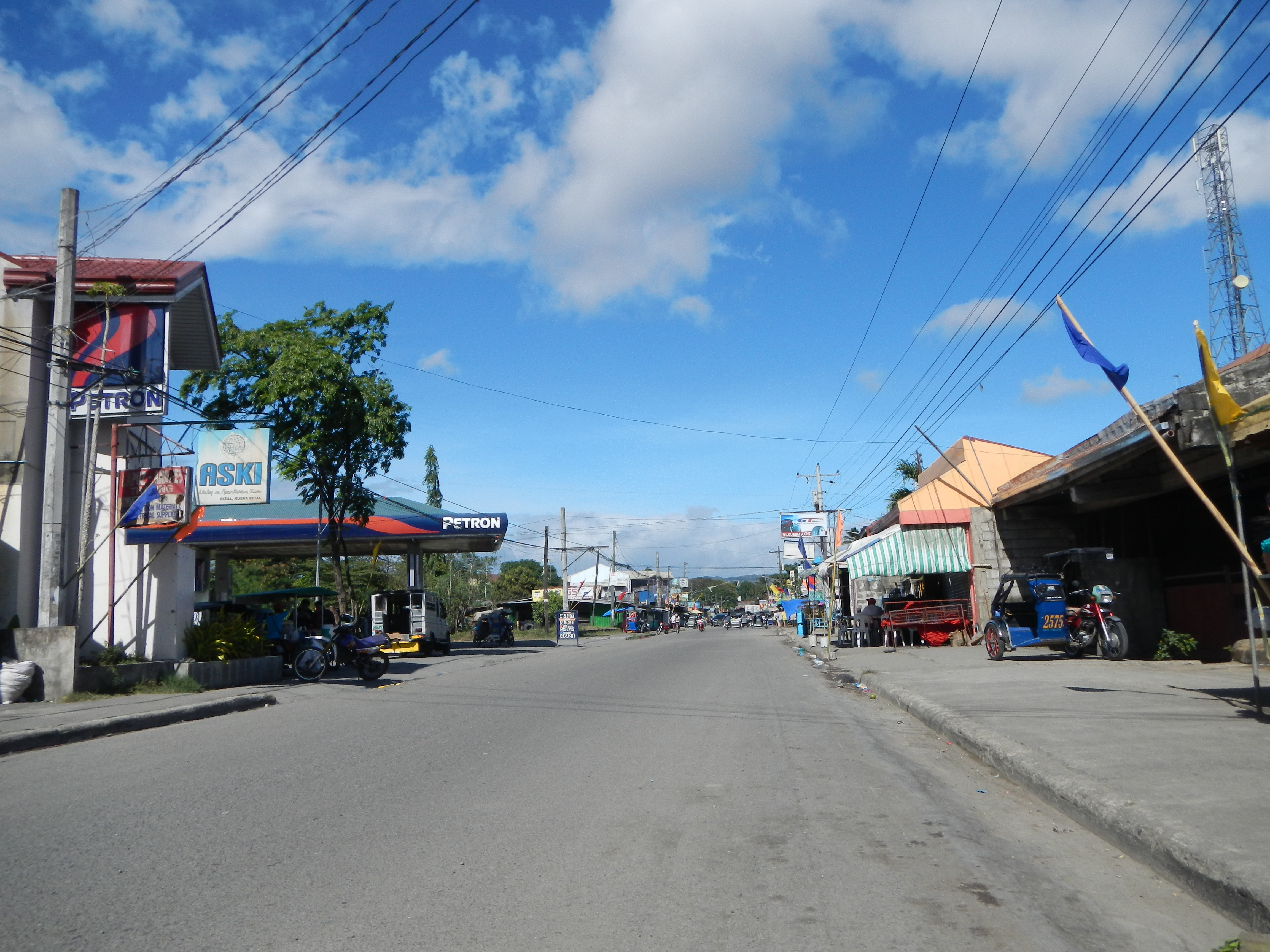 Rizal, Nueva Ecija[1]is a third class municipality in the province of Nueva Ecija, Philippines. According to the 2010 census, it had a population of 57,145 people.[2]Land Area: 120.55 km² ZIP Code: 3127 Coordinates: 15°40'31"N 121°7'24"E[3]Mayor Eugenio Placido, Jr., Vice-Mayor - Bonifacio D. Soliven.